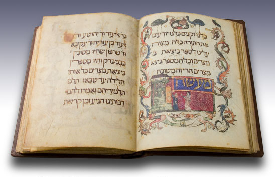 The Barcelona Haggadah.